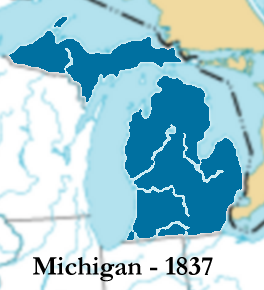 Map of Michigan (formerly Michigan Territory) in 1837 at statehood; created October 2004 by User:jengod. Based on a public domain U.S. government map.